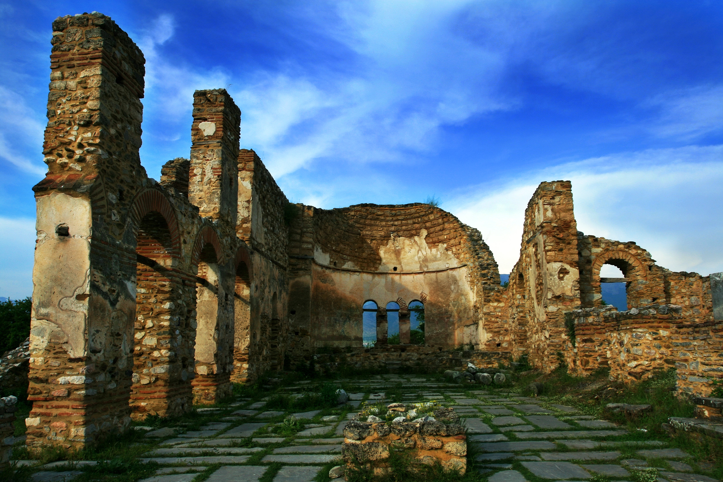 This is a photography of Natura 2000 protected area with ID GR1340001